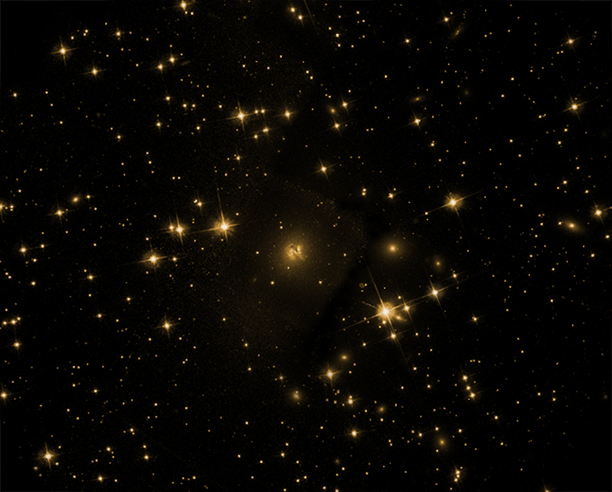 X-ray, Optical & Radio Images of Cygnus A: This galaxy, at a distance of some 700 million light years, contains a giant bubble filled with hot, X-ray emitting gas detected by Chandra (blue). Radio data from the NSF's Very Large Array (red) reveal "hot spots" about 300,000 light years out from the center of the galaxy where powerful jets emanating from the galaxy's supermassive black hole end. Visible light data (yellow) from both Hubble and the DSS complete this view.